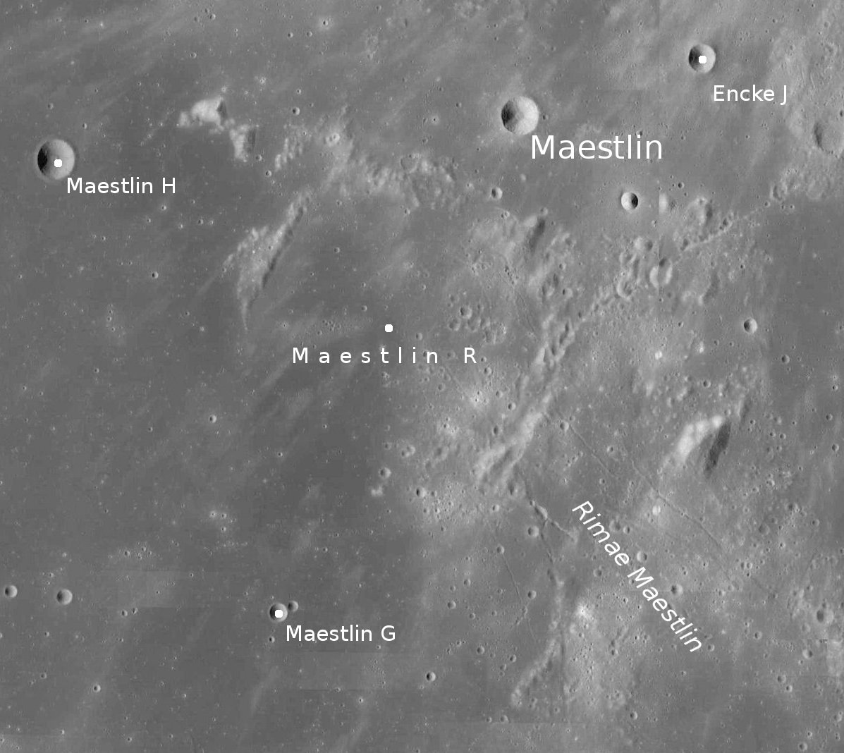 Crater Maestlin with Rimae Maestlin (detail of LRO - WAC global moon mosaic; Mercator projection)